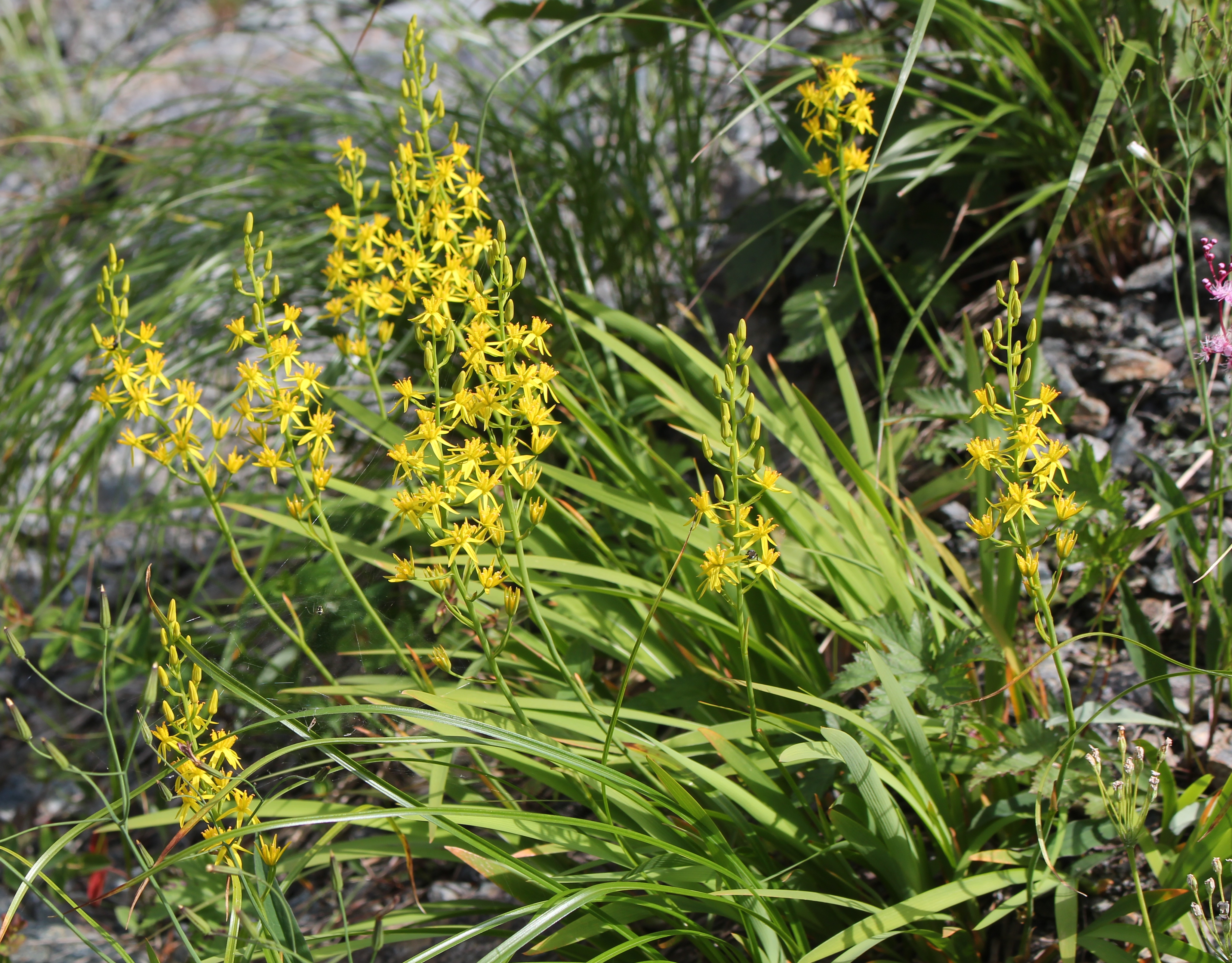 Narthecium asiaticum in Mount Shiroumayari, Hakuba, Nagano prefecture, Japan.